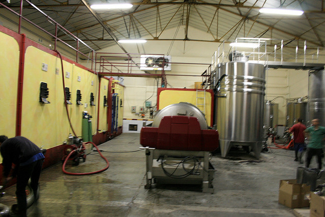 Cuvery at Châteauneuf-du-Pape